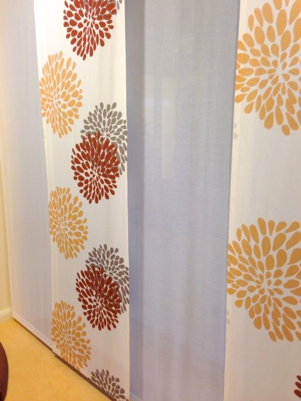 Panel Track curtain